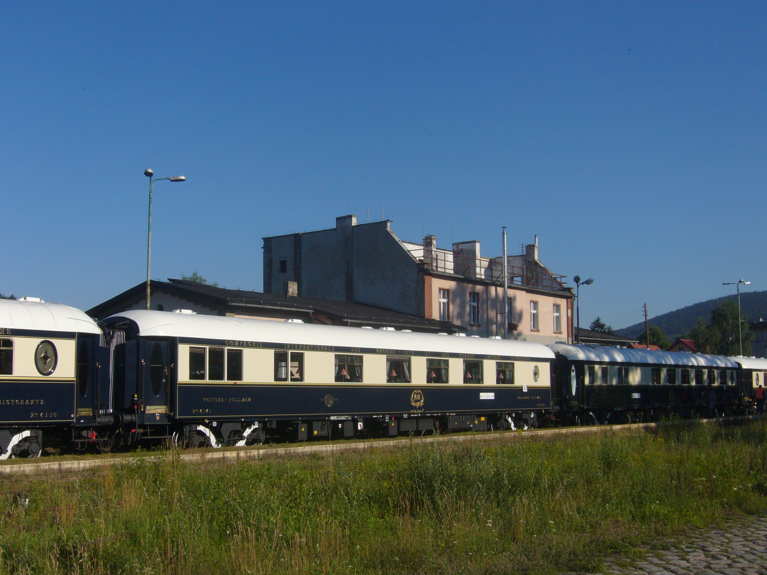 Venice-Simplon Orient Express in Poland, Mieroszów (railway line 291, route Venice – Wien – Banská Bystrica – Kraków – Warszawa – Malbork – Wrocław – Prague). "Pullman car", car number: 4141, series: 4131-4147, built: 1929, seats: 20, constructor: E.I.C. Car Nos 4110, 4141, 4095. Car No. 4141 was a Pullman car that in later years worked on the Flèche ďOr. The Lalique panels feature Bacchanalian maidens. The fine craftsmanship found on the Orient Express can be seen in these René Lalique-designed glass panels.